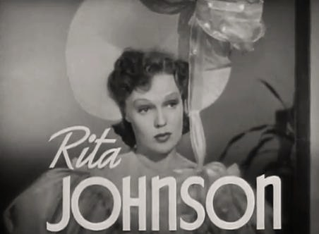 Rita Johnson in Broadway Serenade - trailer (cropped screenshot)